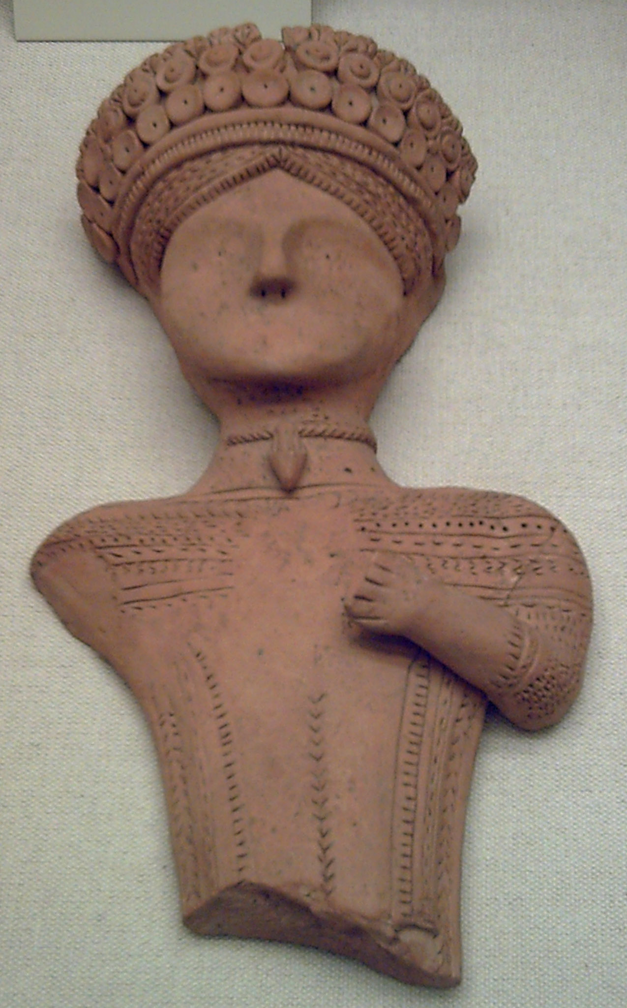 Carthaginian female figure.